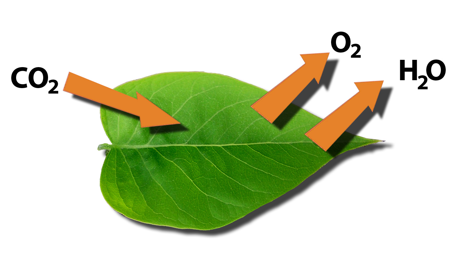 leaf basic function for gas exchange